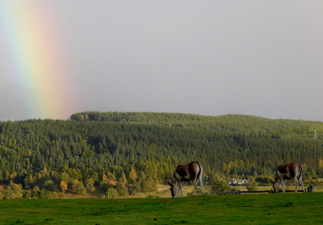 Kiang (wild asses) and rainbow, Highland Wildlife Park